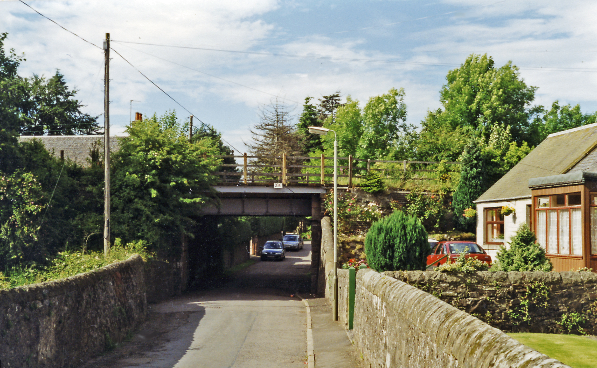 Abernethy station (site/remains). View northward under the railway, the station having been on the left but was closed 19/9/55: ex-NBR Perth - Bridge of Earn - Newburgh - Ladybank line (also Newburgh - St Fort - (Dundee) until 5/10/64).